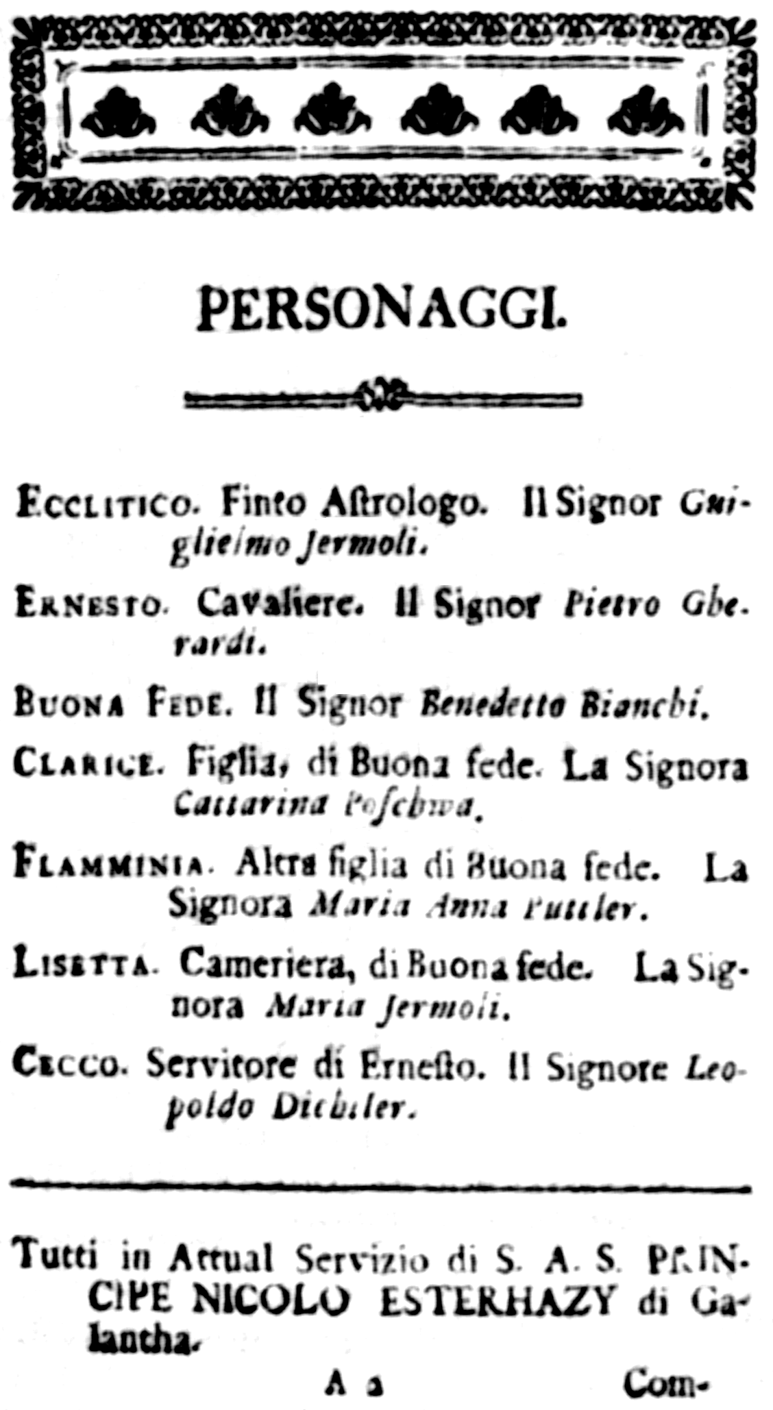 Haydn - Il mondo della luna - cast list of the libretto - Esterhazy 1777